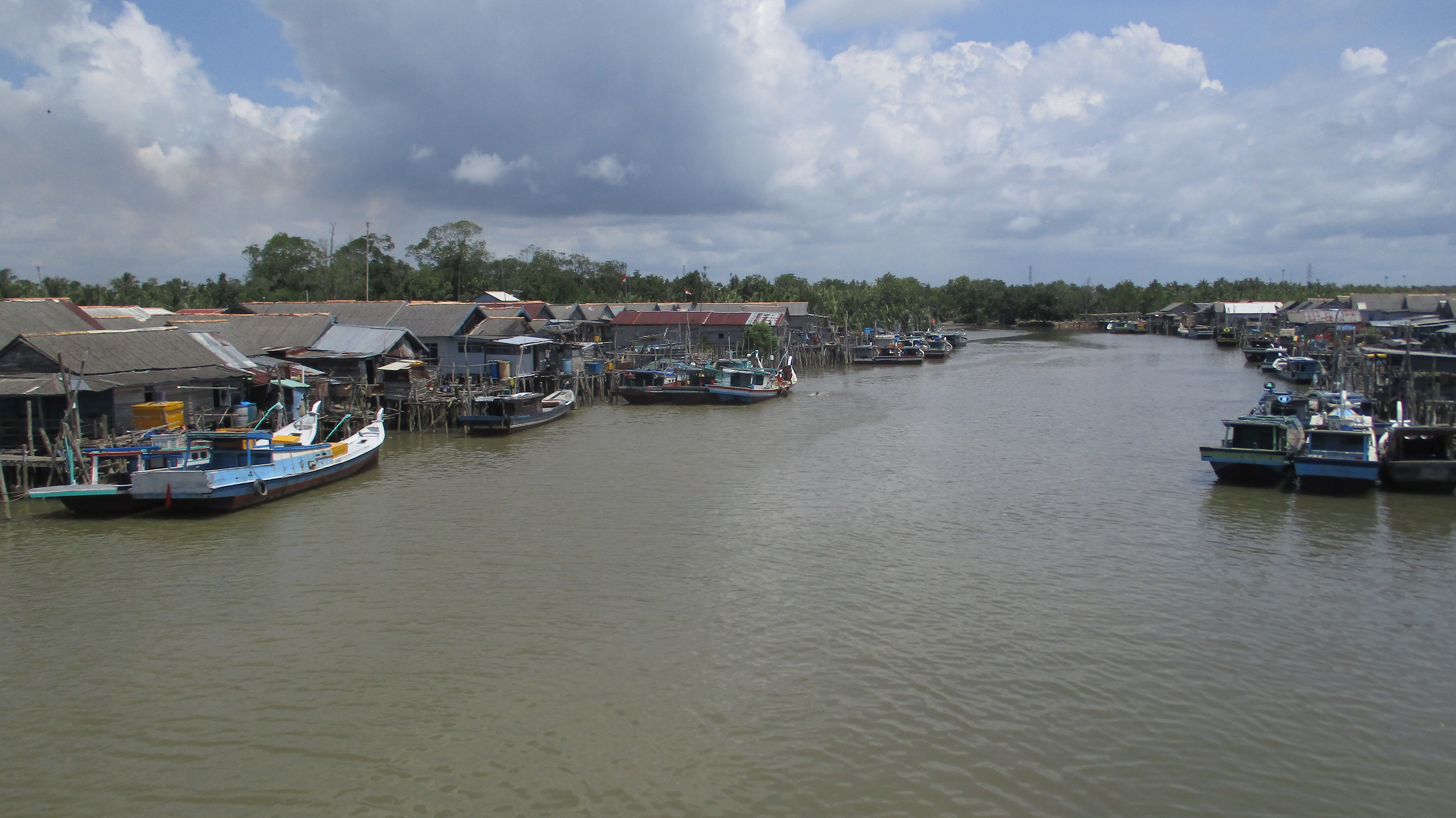 Kurau fishing village in Central Bangka, Bangka Island.